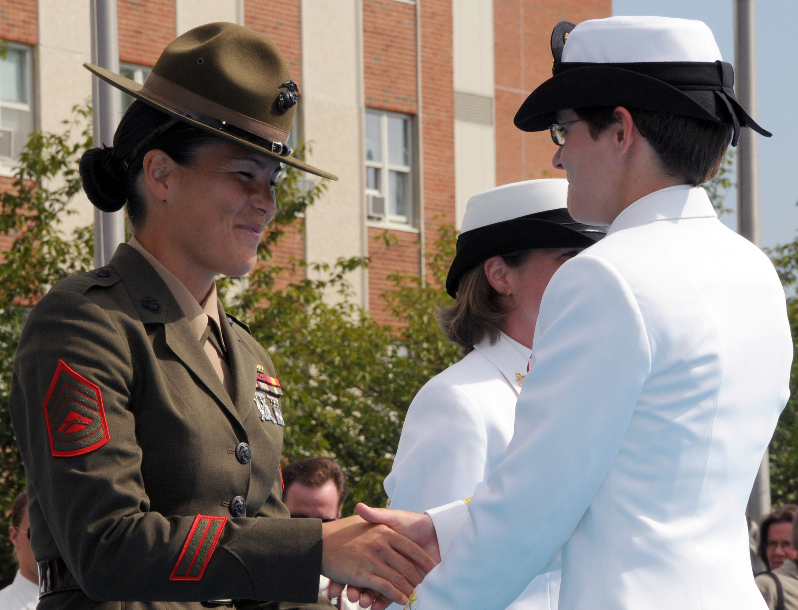 NEWPORT, R.I. (Aug. 29, 2008) Marine Gunnery Sgt. Sandra Center, a drill instructor at Officer Candidate School, congratulates Ensign Maria Batdorff, from Vermontville, Mich., after giving Batdorff her first salute after she graduated with more than 40 other new ensigns from Officer Candidate School. Chief of Naval Personnel, Vice Adm. Mark E. Ferguson III, was the reviewing officer and keynote speaker at the ceremony. He was also a speaker and participant at a ribbon cutting rededication ceremony for the main training facility of Officer Candidate School, Callaghan Hall. The $9.2 million two-year renovation project of the 30-year-old building will now be a facility for training present and future Navy officers. (U.S. Navy photo by Scott A. Thornbloom/Released)